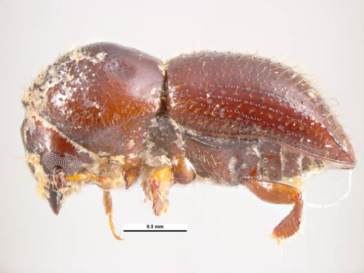 tea shot-hole borer - Euwallacea fornicatus (Eichhoff, 1868) (Coleoptera: Curculionidae: Scolytinae: Xyleborini)